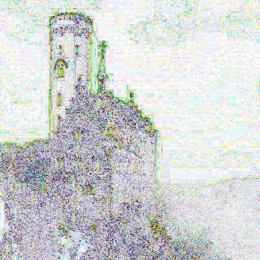 The picture shows the difference pixel-by-pixel between an image and its JPEG compressed version: white=no-difference; black=big-difference The original image is Image:Lichtenstein img processing test.png, that I have renamed castle.png on my hard-disk to make it simpler. Then I have converted it to JPEG using the "convert" utility by ImageMagik, with the following command: convert -quality 50 castle.png castle.jpg Then I have used the following Matlab code: %read original image original=imread('castle.png'); %read compressed image compressed=imread('castle.jpg'); original=im2double(original); compressed=im2double(compressed); error=abs(original-compressed); %amplify the error for each color layer error(:,:,1)=imadjust(error(:,:,1)); error(:,:,2)=imadjust(error(:,:,2)); error(:,:,3)=imadjust(error(:,:,3)); %invert the picture error=1-error; %write it to a file imwrite(error,'castle_error.png')